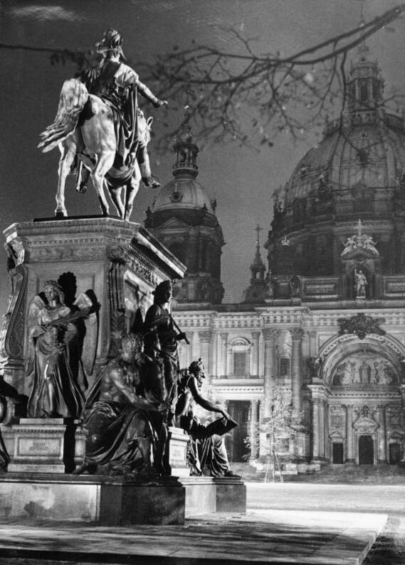 Berlin, Dom Information added by Wikimedia users.This picture is a photomontage! As can be seen in other pictures, the monument was facing the Stadtschloss, not the Dom, and would have been seen from the side, not the back as here, if you were facing the Dom. Unique picture taken after the Lustgarten was paved and the equestrian statue moved (1934-35).